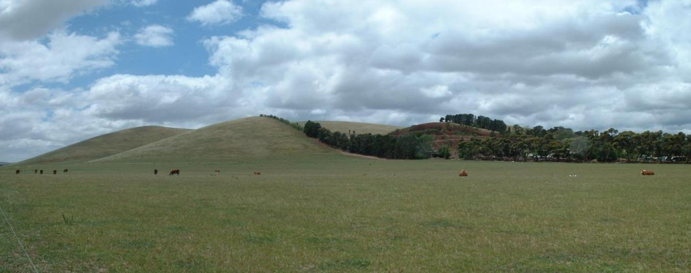 View of Mount Fraser, Victoria. Mount Fraser is an extinct volcano, near Beveridge, Victoria, Australia.